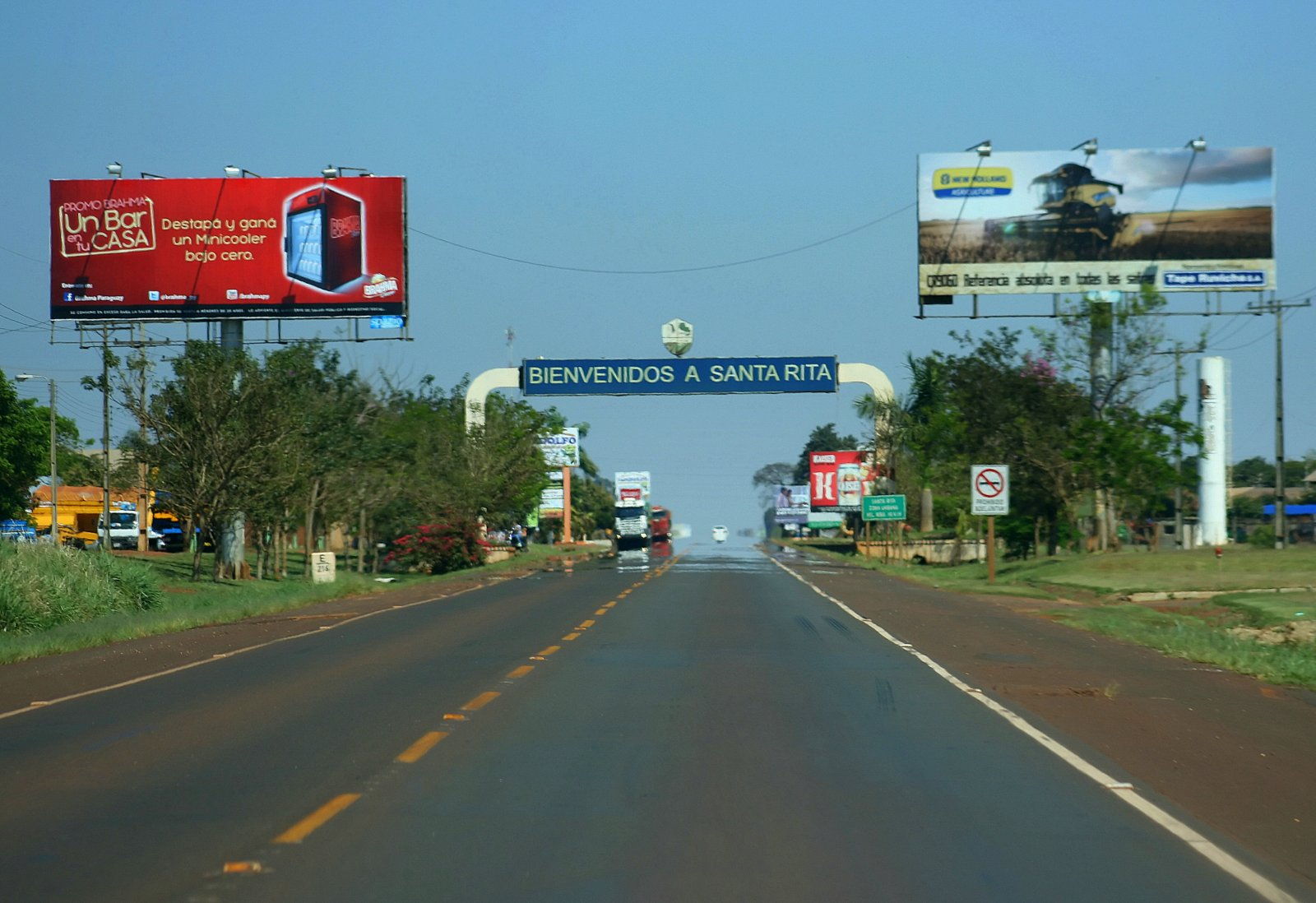 Route 6 entering Santa Rita city in Alto Paraná Department, Paraguay.